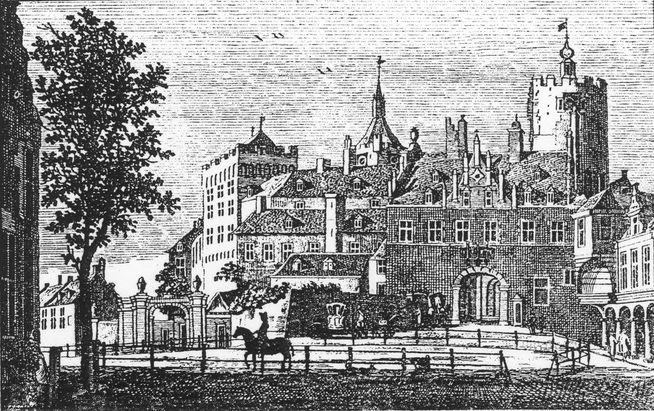 The "Herzog-Wilhelm-Tor" of the Schwanenburg in Cleves.